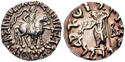 Coin of the Indo-Scythian king Vonones, with Spalahores